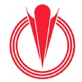 Ogawa Saitama chapter